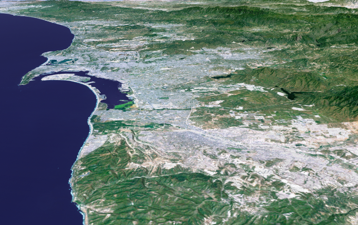 This is a 3D image provided by Nasa URL